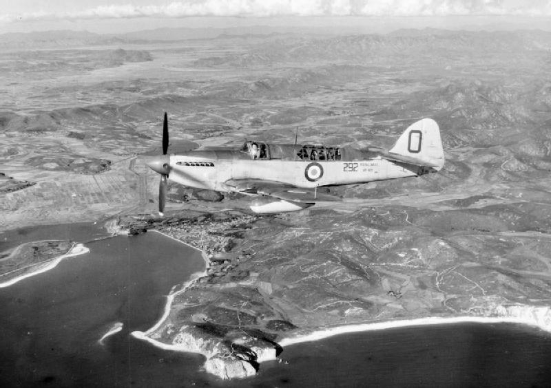 A Royal Navy Fairey Firefly FR.IV from 825 Naval Air Squadron flying a reconnaissance mission from HMS Ocean (R68) along the eastern seaboard of Korea.